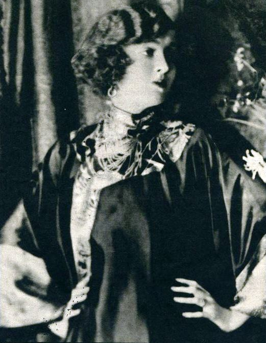 American actress Peggy Hopkins Joyce, on page 16 of the December 1922 Screenland.